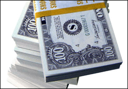 A stack of Money/Picture of money (The following is the description taken from image metadata on the FBI Buffalo Website) Orientation of image: 1 File change date and time: 2010:06:02 12:07:25 Software used: Adobe Photoshop CS3 Windows